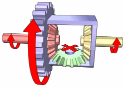 Illustration of a differential gear, made by Wapcaplet in Blender and finished in the GIMP. Input torque is applied to the ring gear, which turns the entire carrier (all blue), providing torque to both side gears (red and yellow), which in turn may drive the left and right wheels. If the resistance at both wheels is equal, the pinion gear (green) does not rotate, and both wheels turn at the same rate.